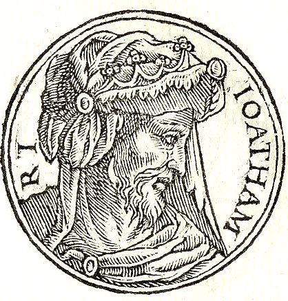 Jotham of Judah was the king of Judah, and son of Uzziah with Jerusha, daughter of Zadok.